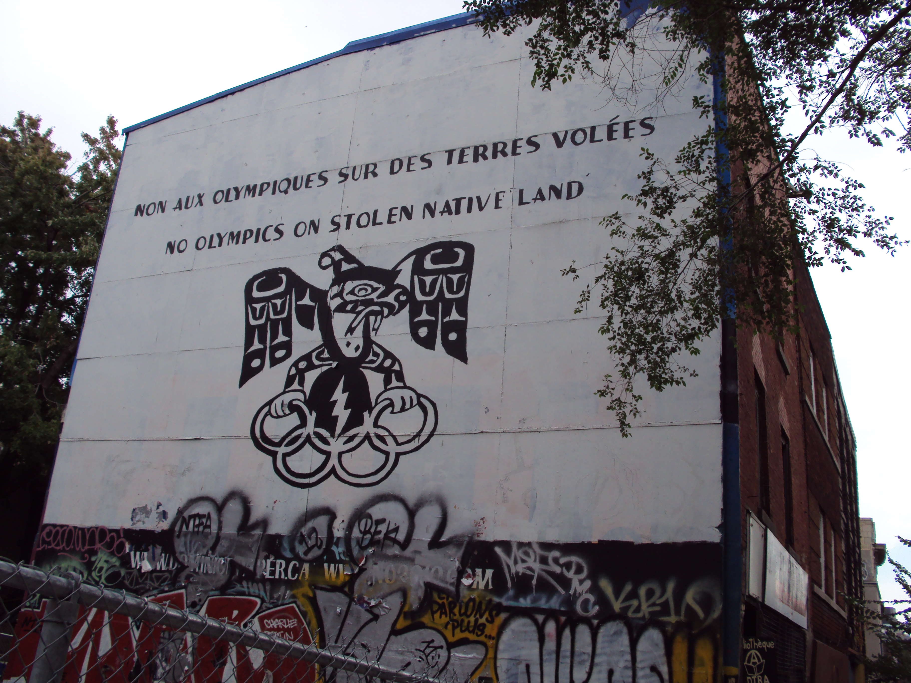 Non aux Olympiques sur des Terres Volées / No Olympics on Stolen Native Land - Montreal, Canada